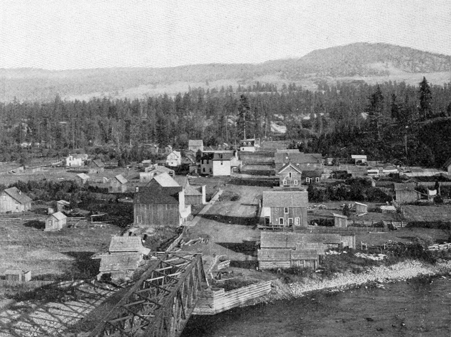 Princeton, British Columbia.